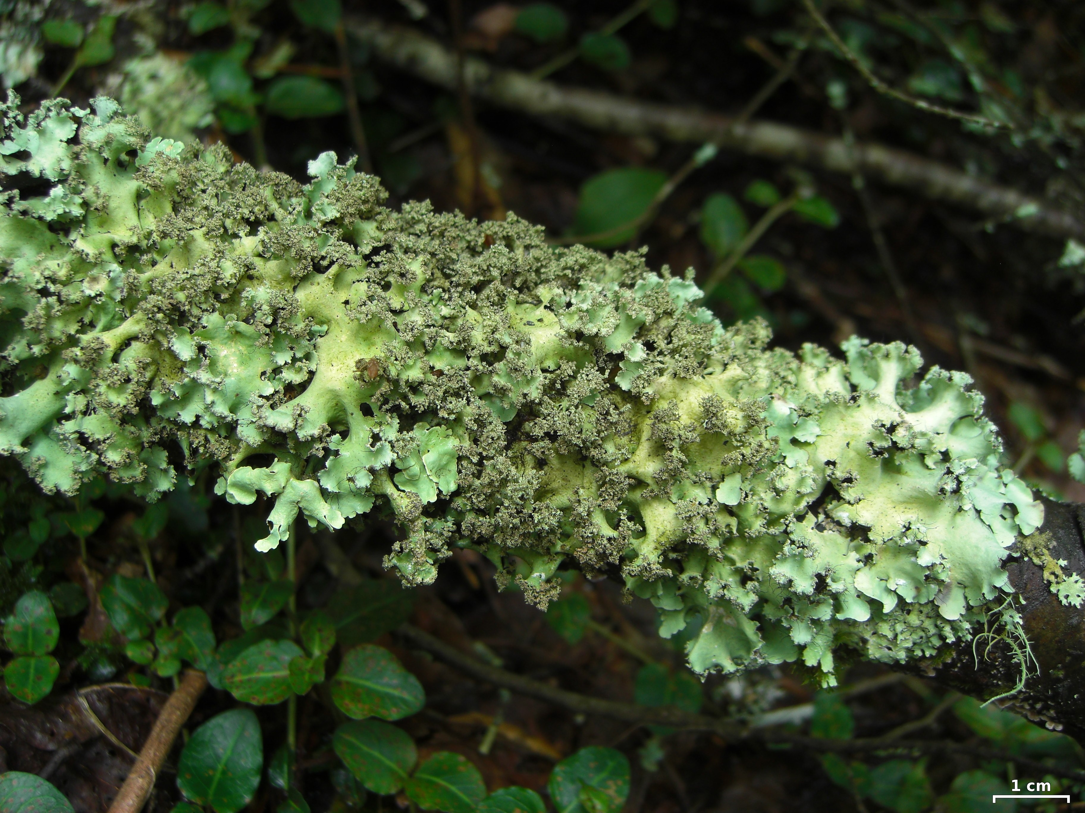 Smokies, North Carolina, 20130626 or 20130627